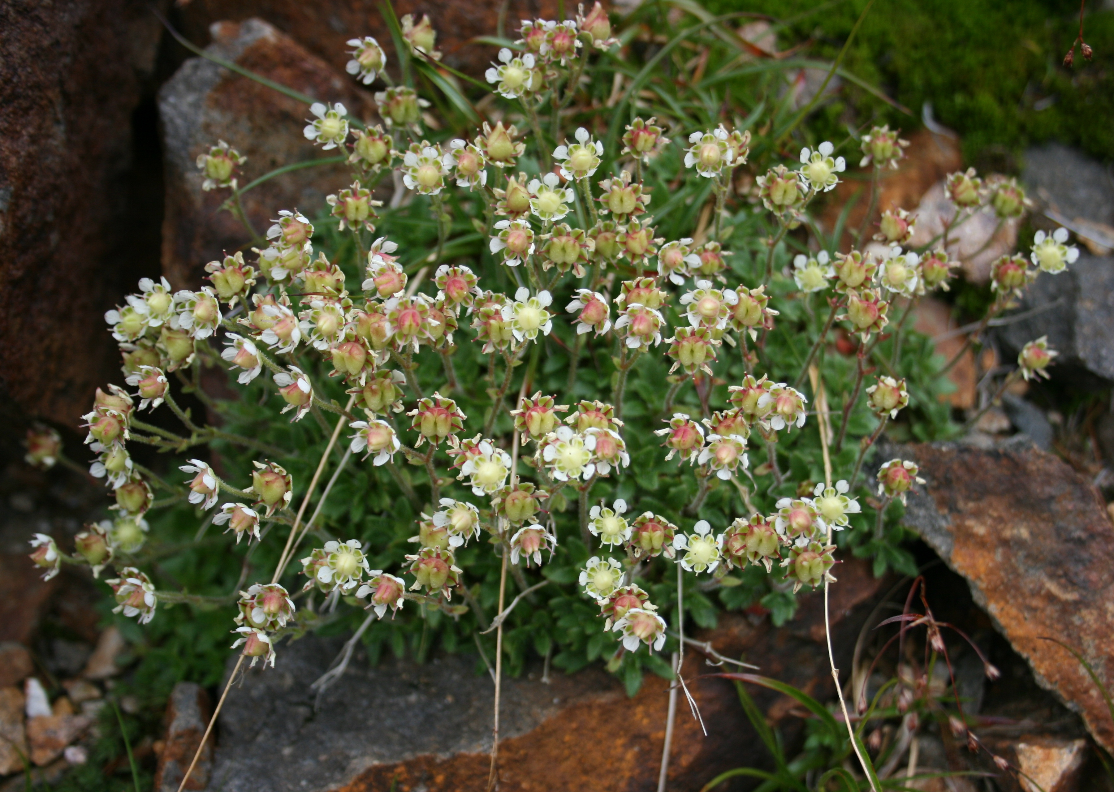 Saxifraga merkii var. idsuroei in Mount Ontake, Japan.